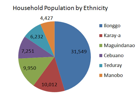 Household Population by Ethnicity of Lebak, Sultan Kudarat